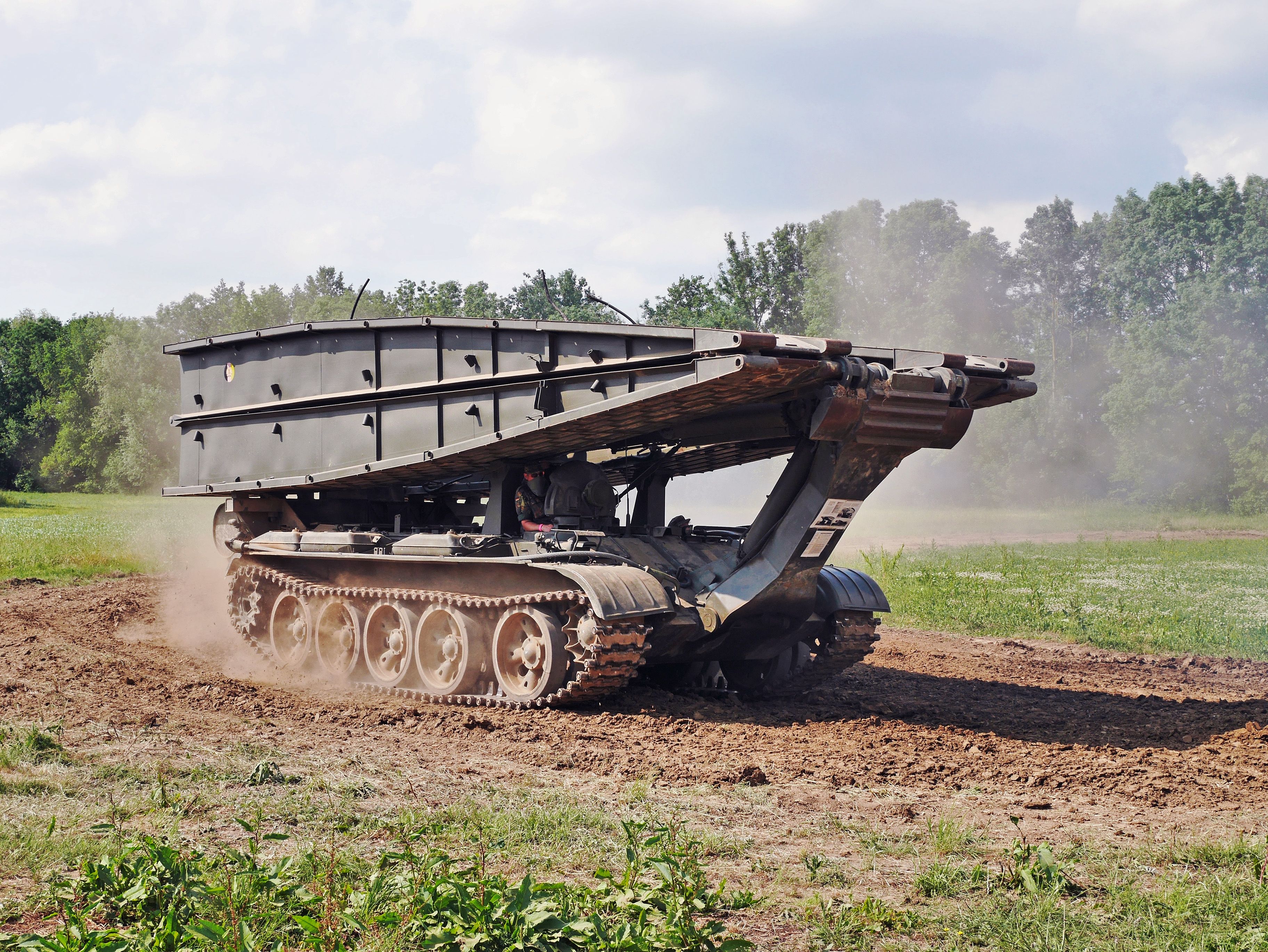 An MT-55 armoured vehicle-launched bridge in Military Day 2015 in Uffenheim. This vehicle was based on the T-55, which was the main battle tank of the Soviet Union, produced 1958 to 1963. Many specialized variants of the T-54/55 exist, including this armoured vehicle-launched bridge.